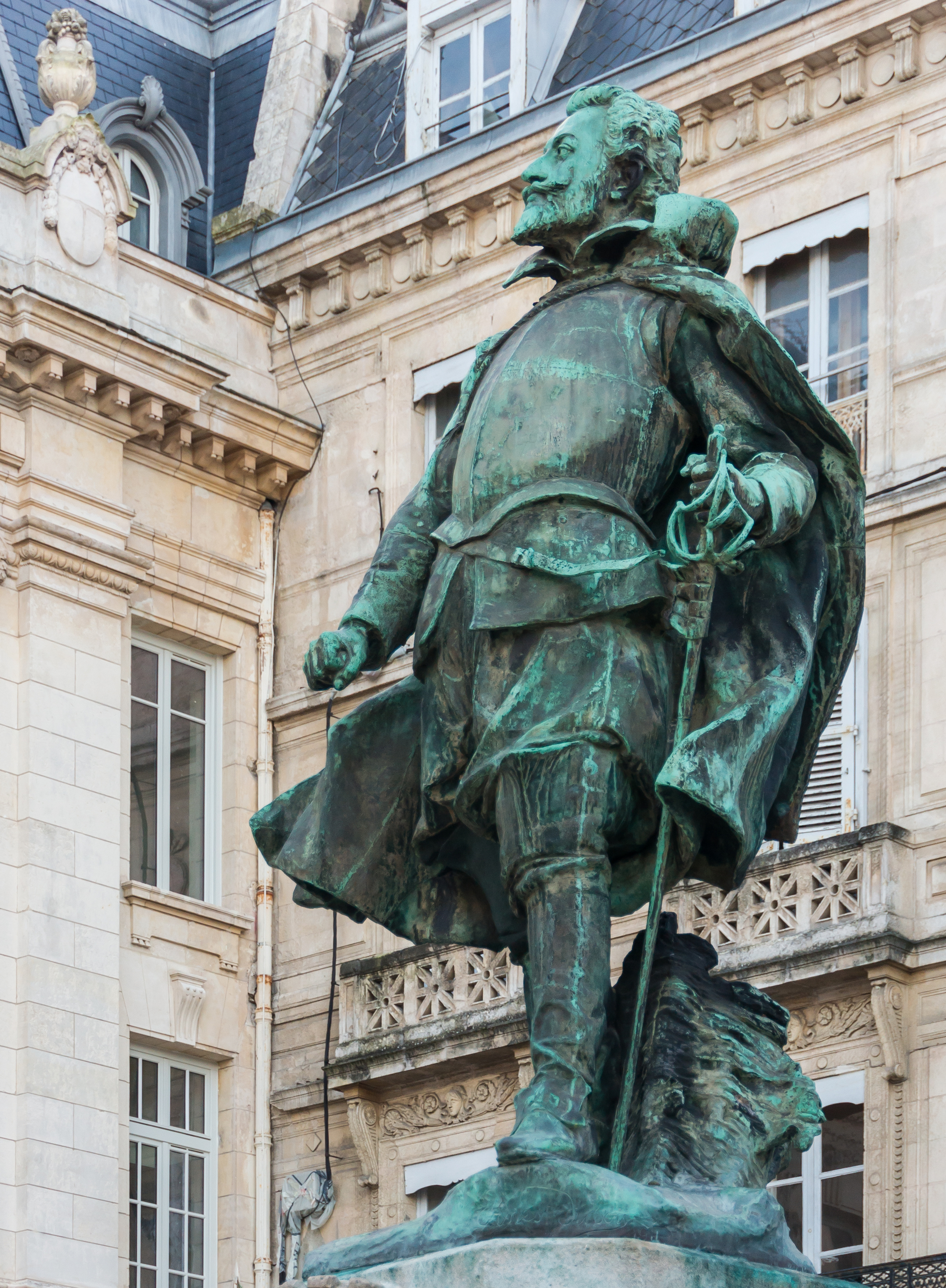 Statue to Jean Guiton (2 July 1585 – 15 March 1654), Mayor of La Rochelle during the "Great Siege" in 1627-1628, by Ernest Henri Dubois (1909, signed in 1911)